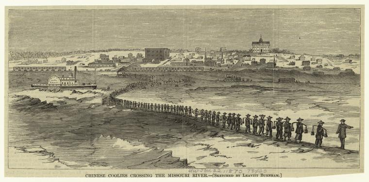 A sketch entitled "Chinese Coolies Crossing the Missouri River," by journalist, artist and later attorney Leavitt Burnham (b. 1844), originally of Essex County, Massachusetts, and subsequently of Omaha, Nebraska.